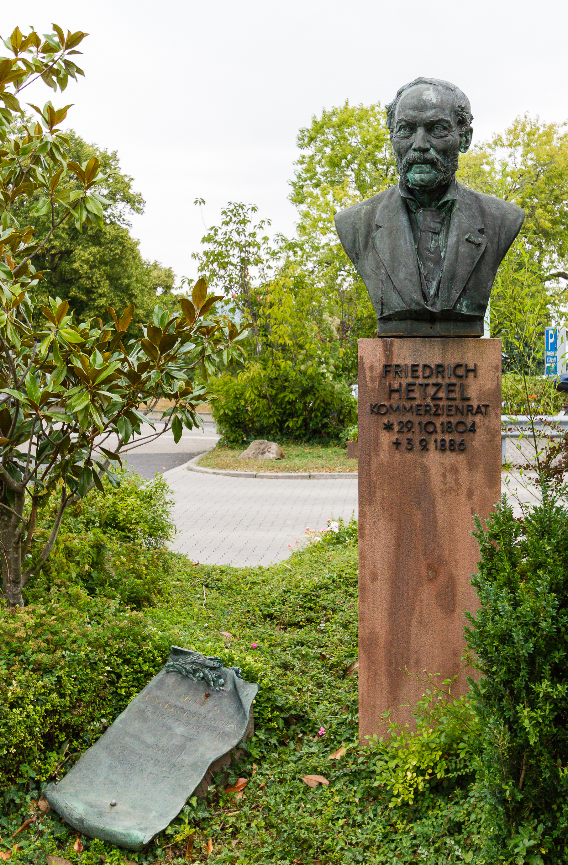 Designation: Sculpture Location: Stiftstraße House number: front of no. 10 Place: Neustadt an der Weinstrasse, Rhineland-Palatinate Construction time: 1887 Description: Bronze bust of Friedrich Hetzel by Wilhelm von Rümann, Munich